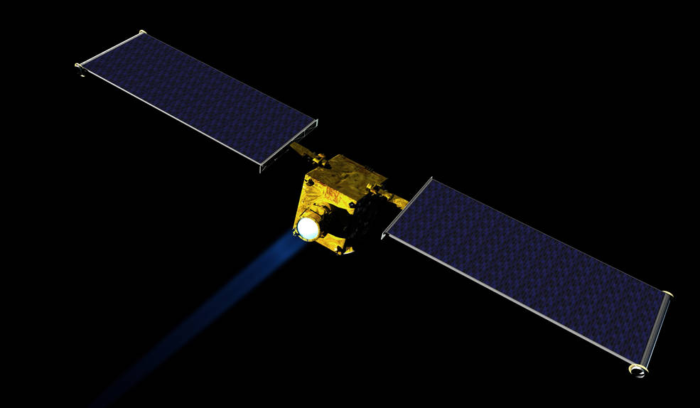 Artist concept of NASA’s Double Asteroid Redirection Test spacecraft or DART. DART, which is moving to preliminary design phase, would be NASA’s first mission to demonstrate an asteroid deflection technique for planetary defense.